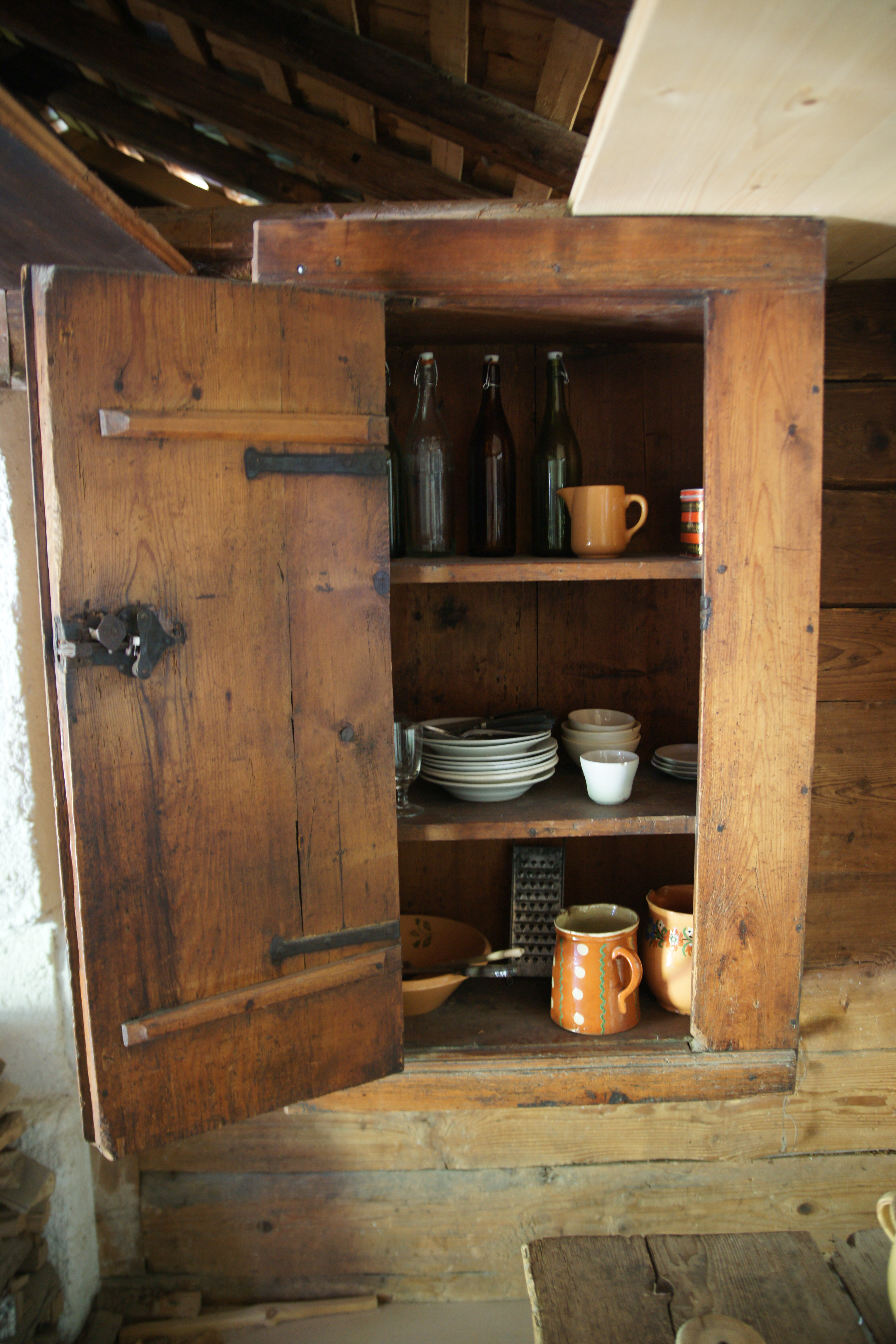 Swiss Open Air Museum Ballenberg: Maiensäss dwelling house of Buochs / NW (1788)